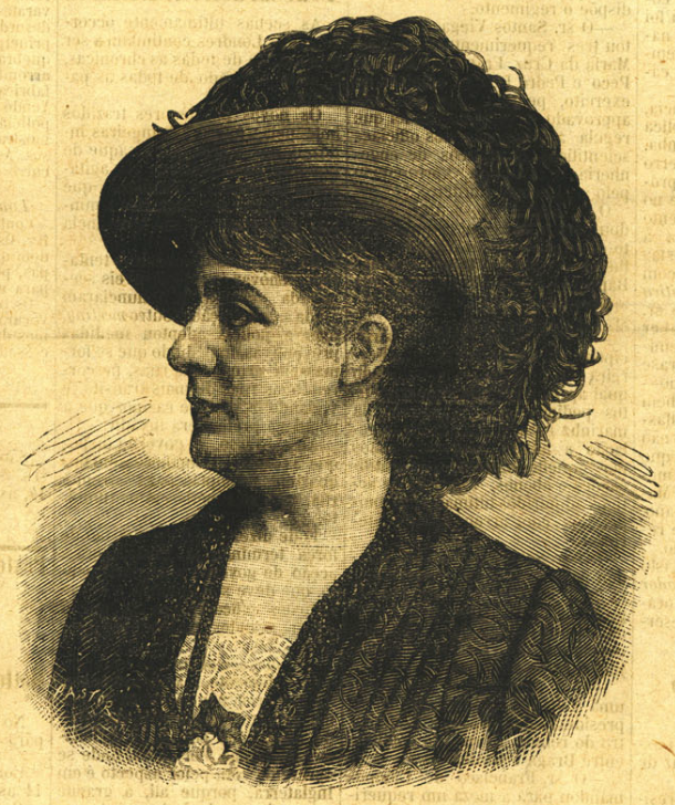 Fidès Devriès (1852-1941), Dutch opera singer, in an engraving published in 1886.